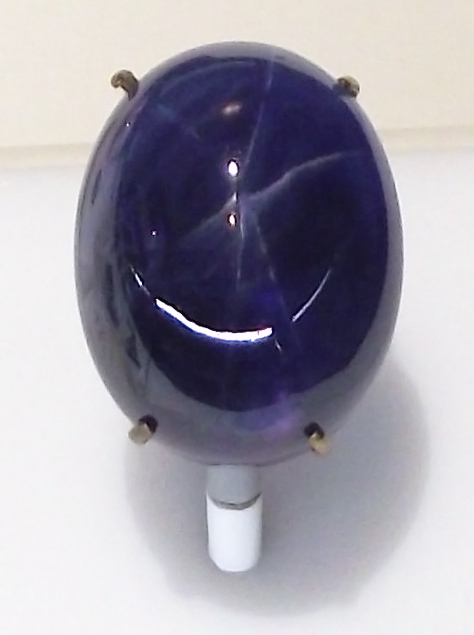 The "Star of Bombay", a 182-carat blue star sapphire. Photographed on tour at the San Diego Natural History Museum, California, USA.